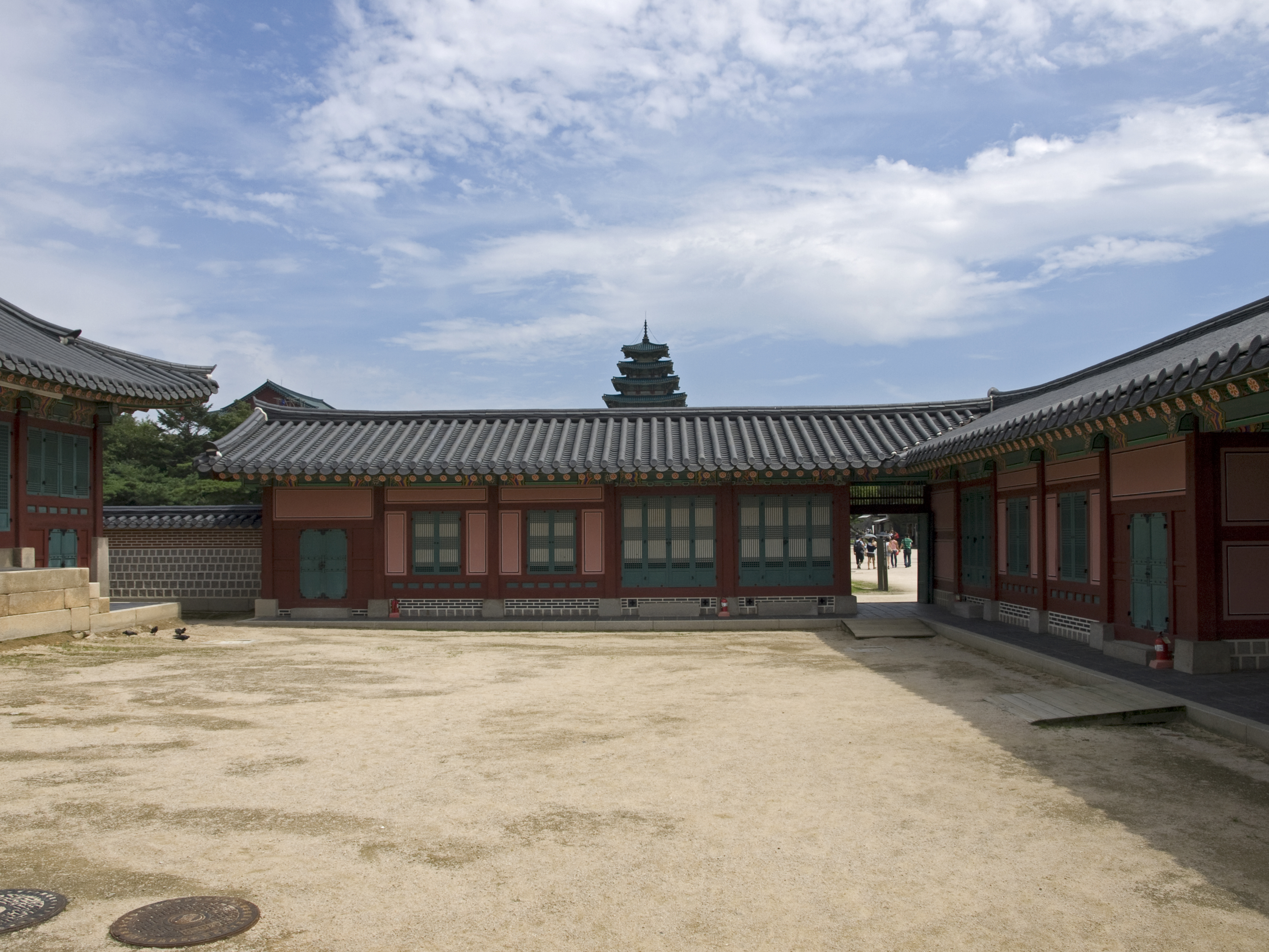 Donggung, Gyeongbokgung, Seoul